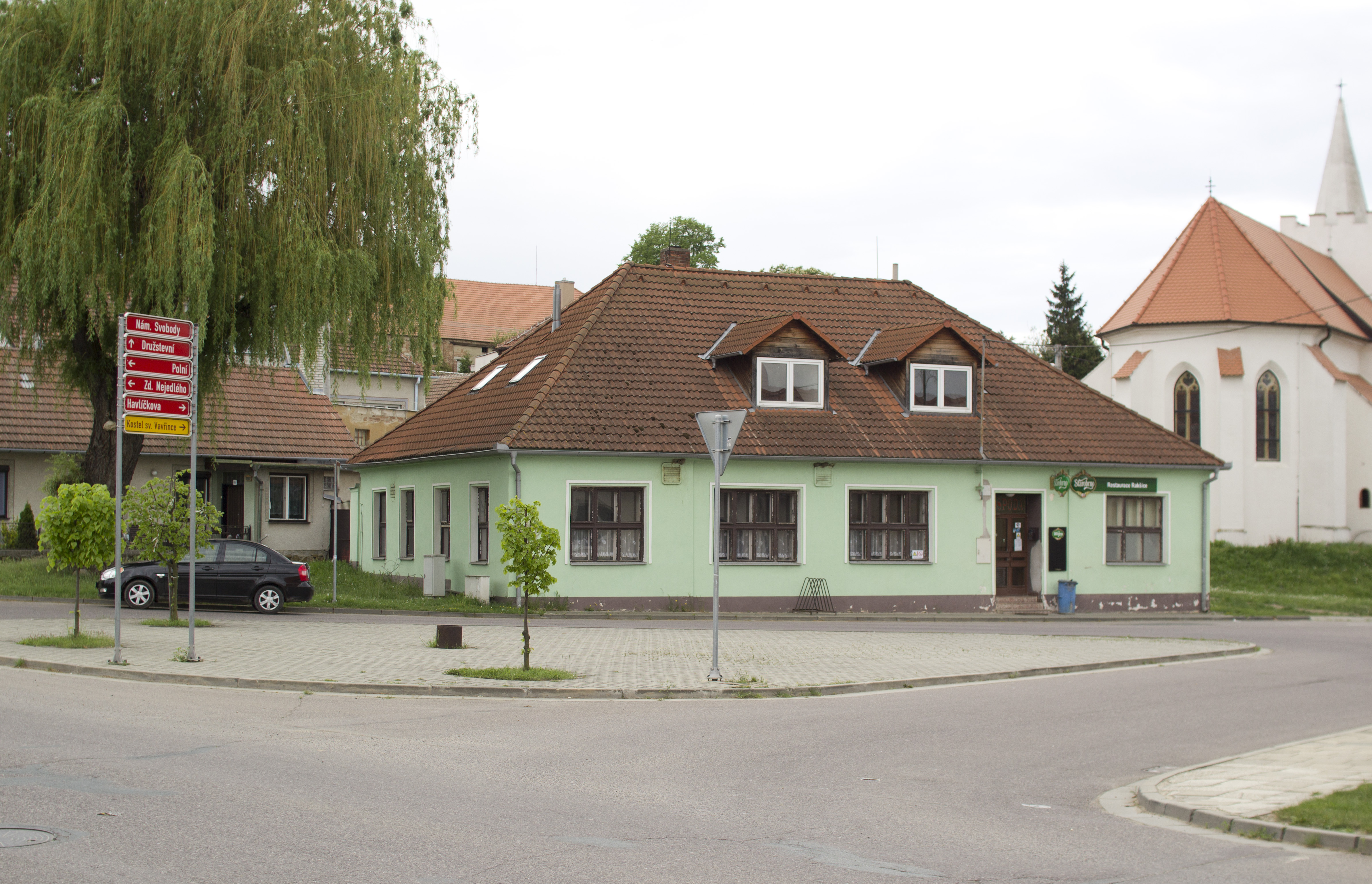 Pub, Rakšice, Moravský Krumlov, Znojmo District, South Moravian Region, Czech Republic